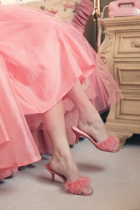 maroabou mule heel